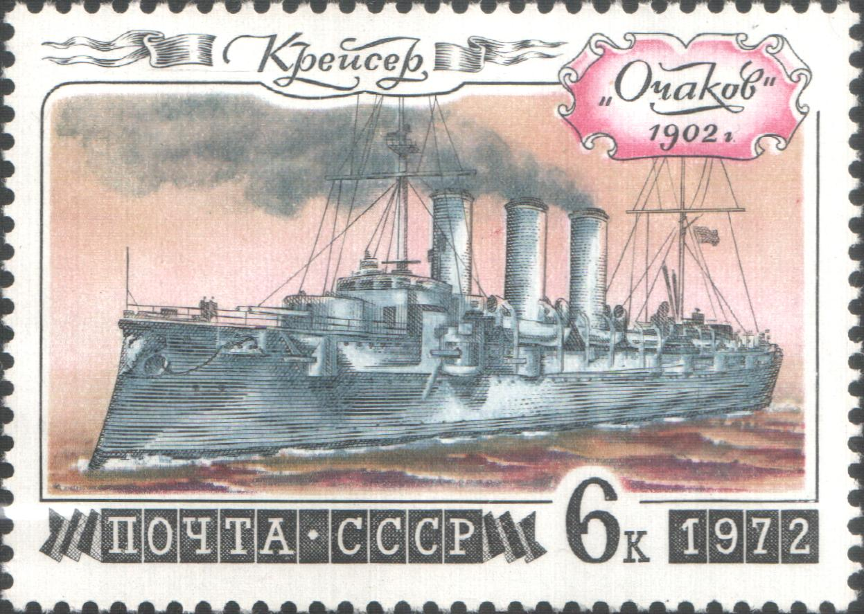 USSR stamps